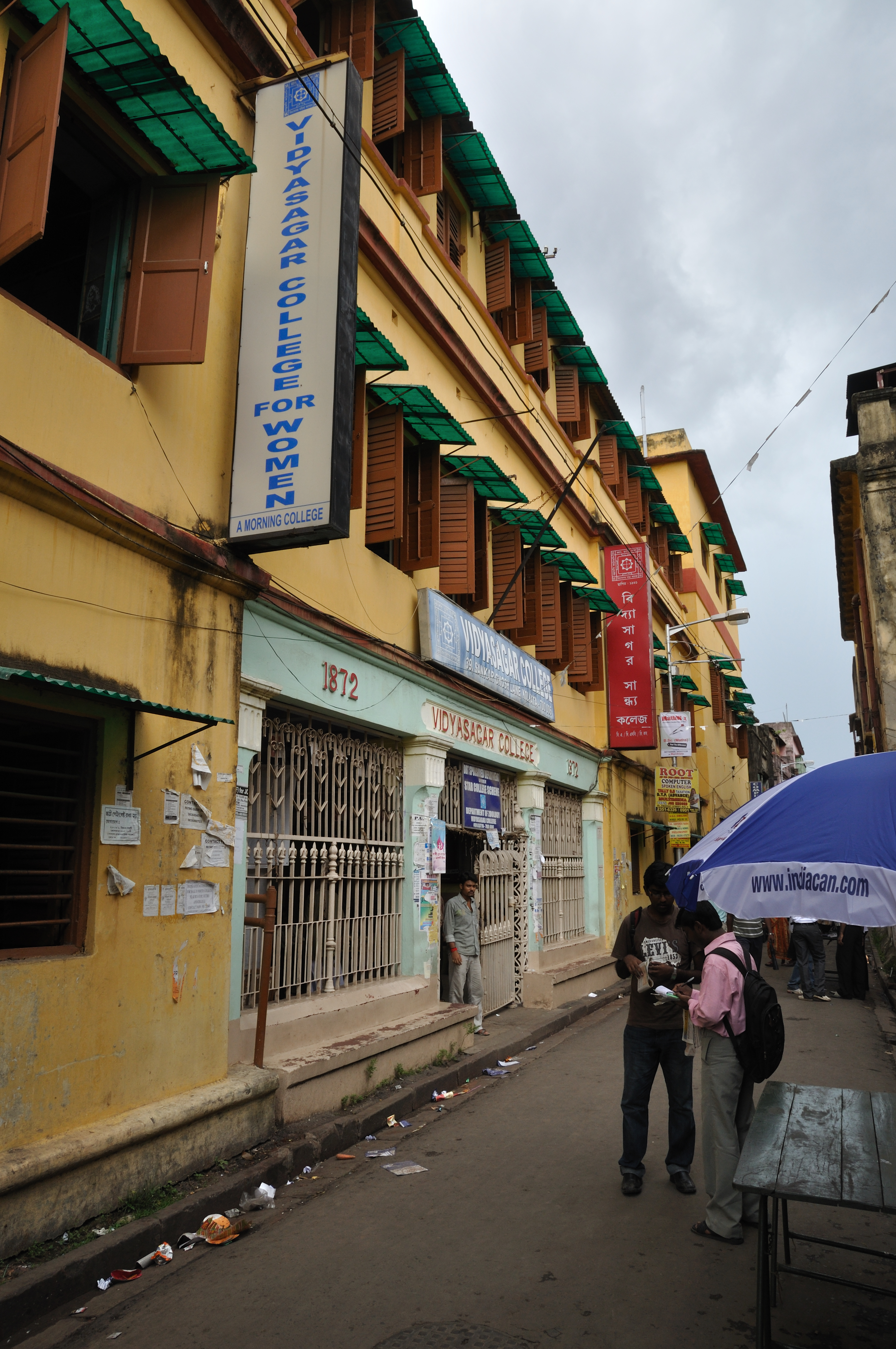 Vidyasagar College was founded in the year 1872 in Kolkata.